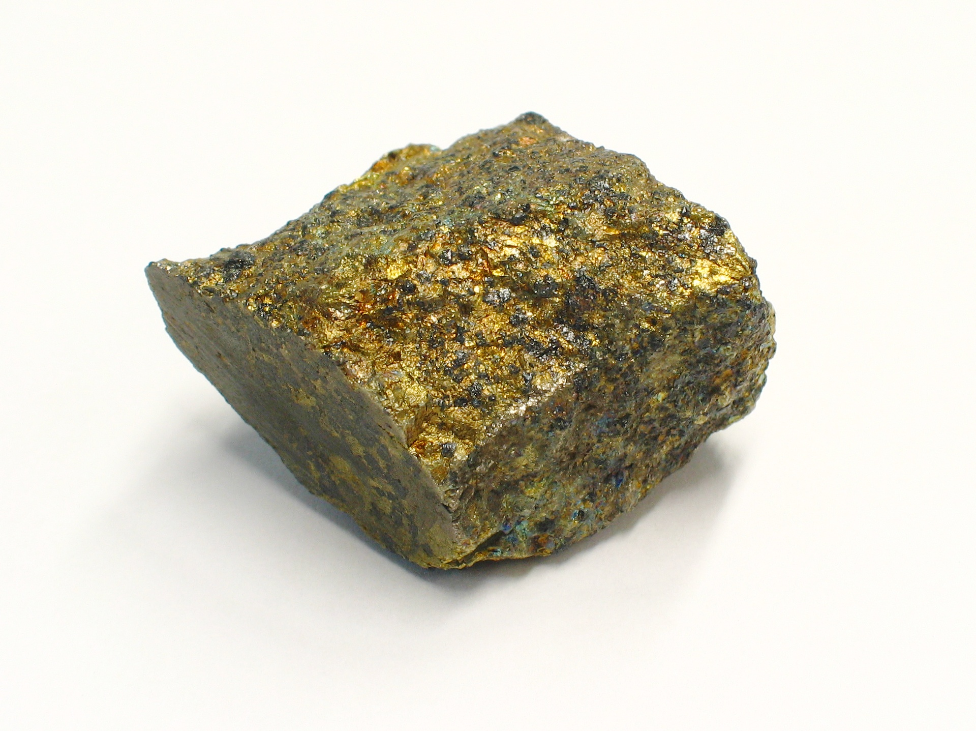 Chalcopyrite